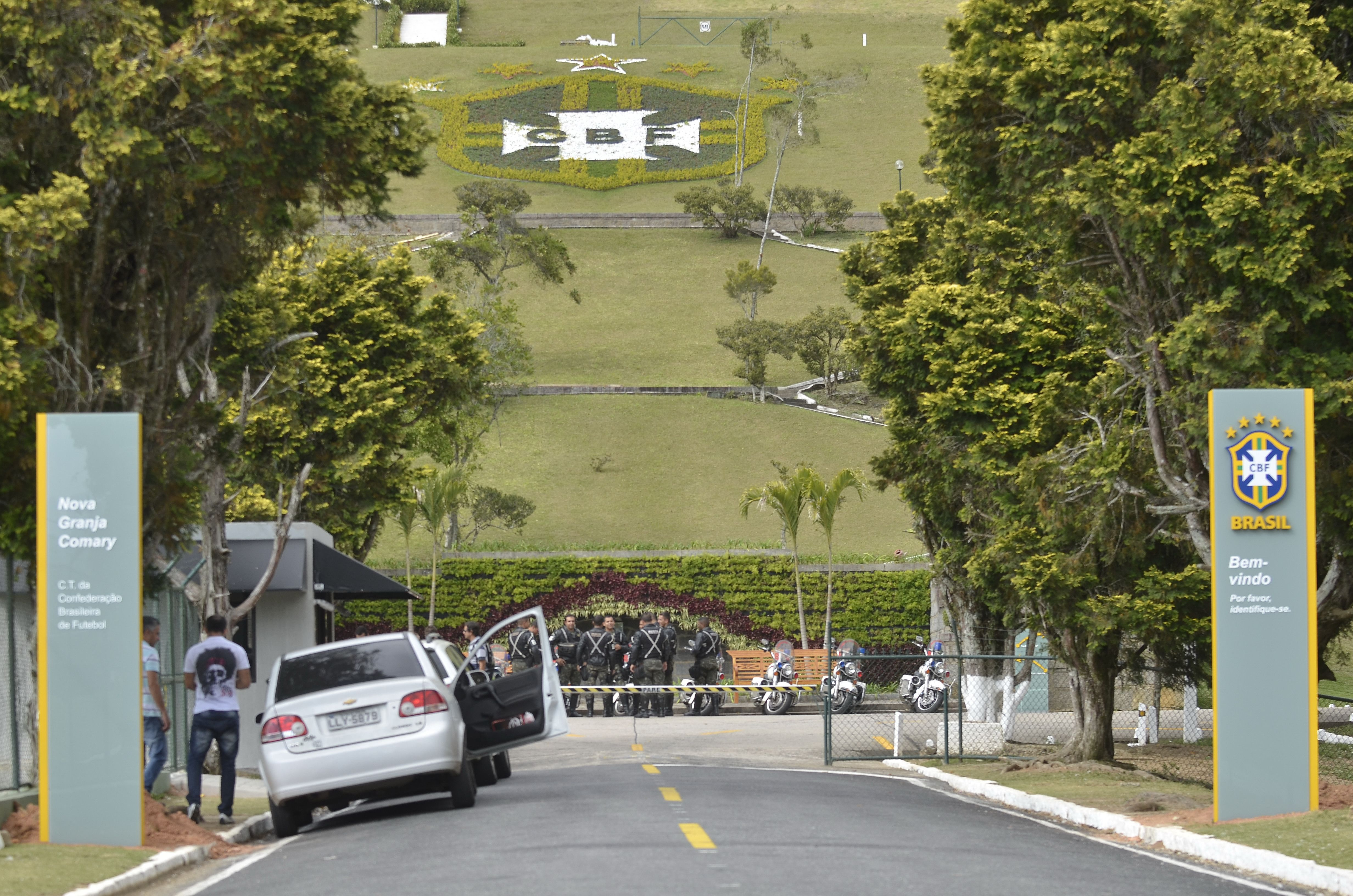 Photo by Fernando Frazão/Agência Brasil CCBY 3.0